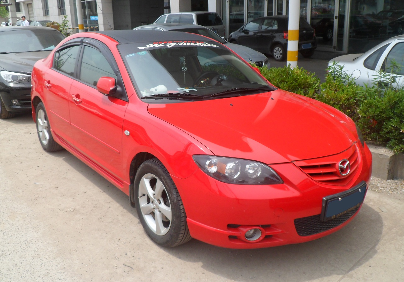 Mazda 3 BK sedan photographed in Shanghai, China.